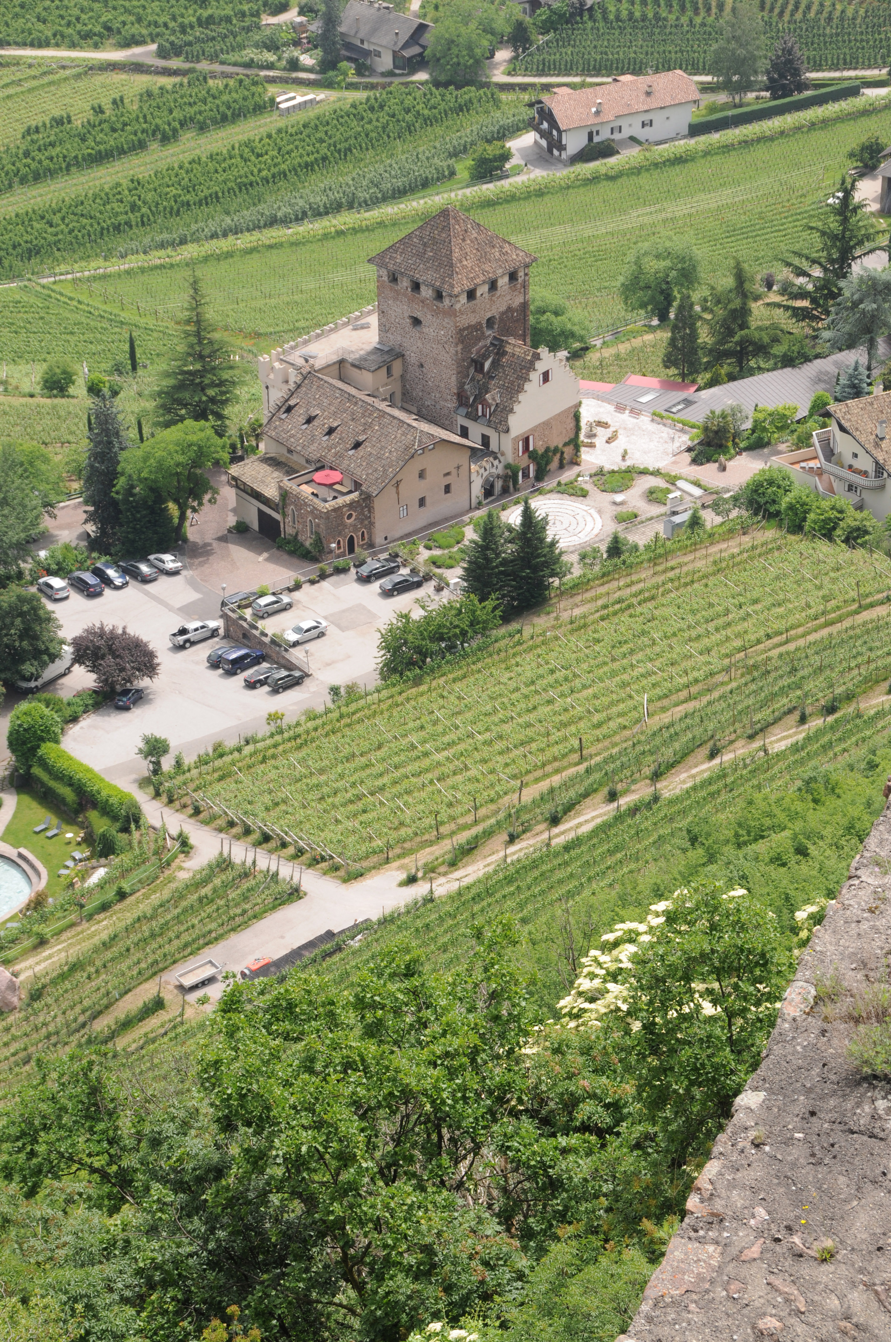 Korb Castle, Eppan, South Tyrol, view from castle Boymont